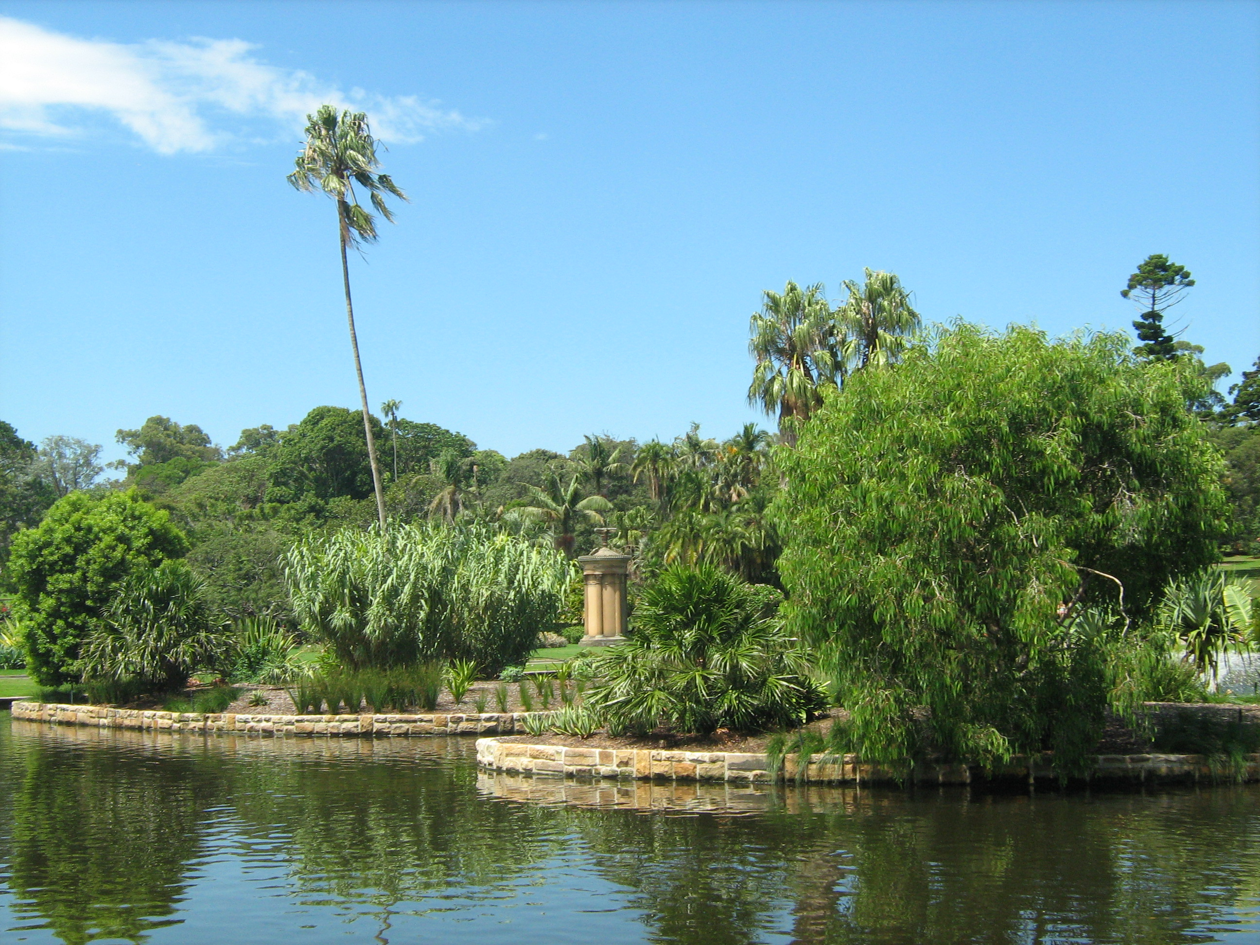 Pond in the Royal Botanic Gardens, Sydney, Australia